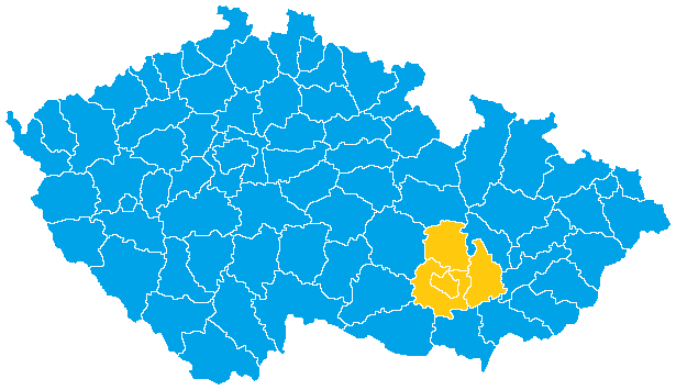 Elections to the Czech National Council in 1990 - winning party by districts (light blue Civic Forum, gold Movement for Autonomous Democracy - Society for Moravia and Silesia)